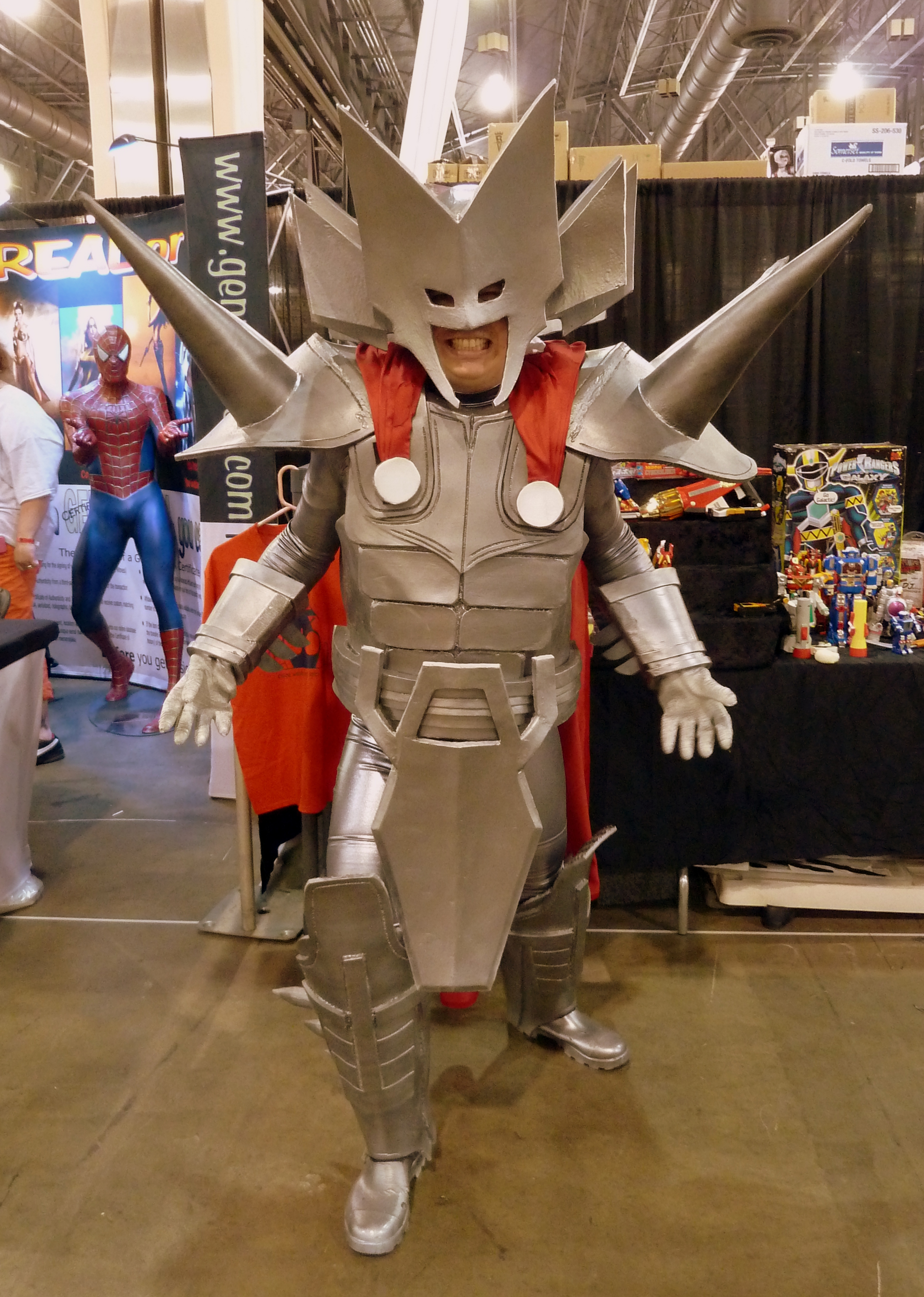 Cosplay at Wizard World Philadelphia 2013